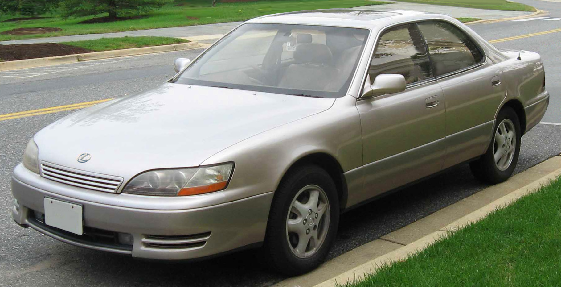 1995-1996 Lexus ES 300 photographed in USA.